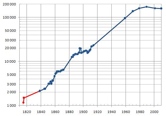 Population of Melitopol as a function of time, plotted in logarithmic scale